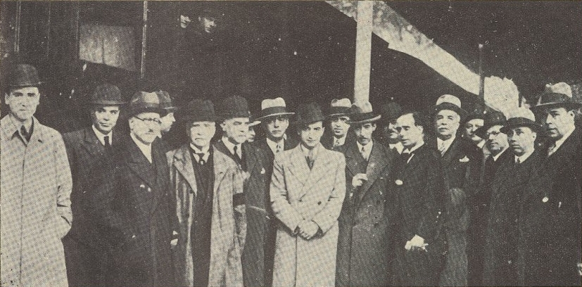 On April 30, 1936, the Empresa Rádio Caminhos de Ferro (Radio Railways Company) organized a tour to Sintra to demonstrate its new system. To this end, a special first class carriage was attached to a semi-fast train between Lisbon and Sintra, to make the experiments and transport the guests. This picture was taken after arrival at Sintra station. Standing in the center is the Portuguese Minister of Public Works and Communications, Joaquim Abranches. This photograph was published on the Gazeta dos Caminhos de Ferro magazine no. 1157, of the 1st March 1936, and scanned by the Hemeroteca Municipal de Lisboa.